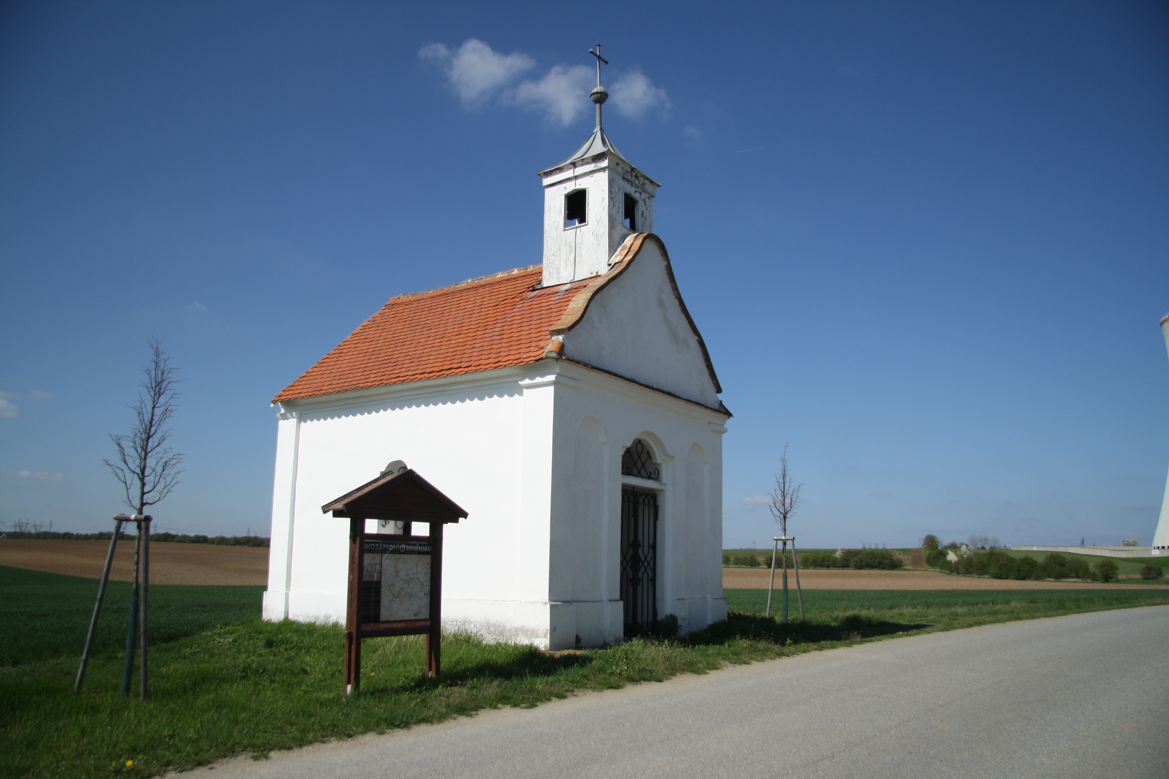 Chapel in Lipňany, Dukovany, Třebíč District.